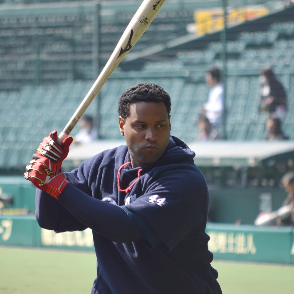 CD-Victor-Diaz20130306